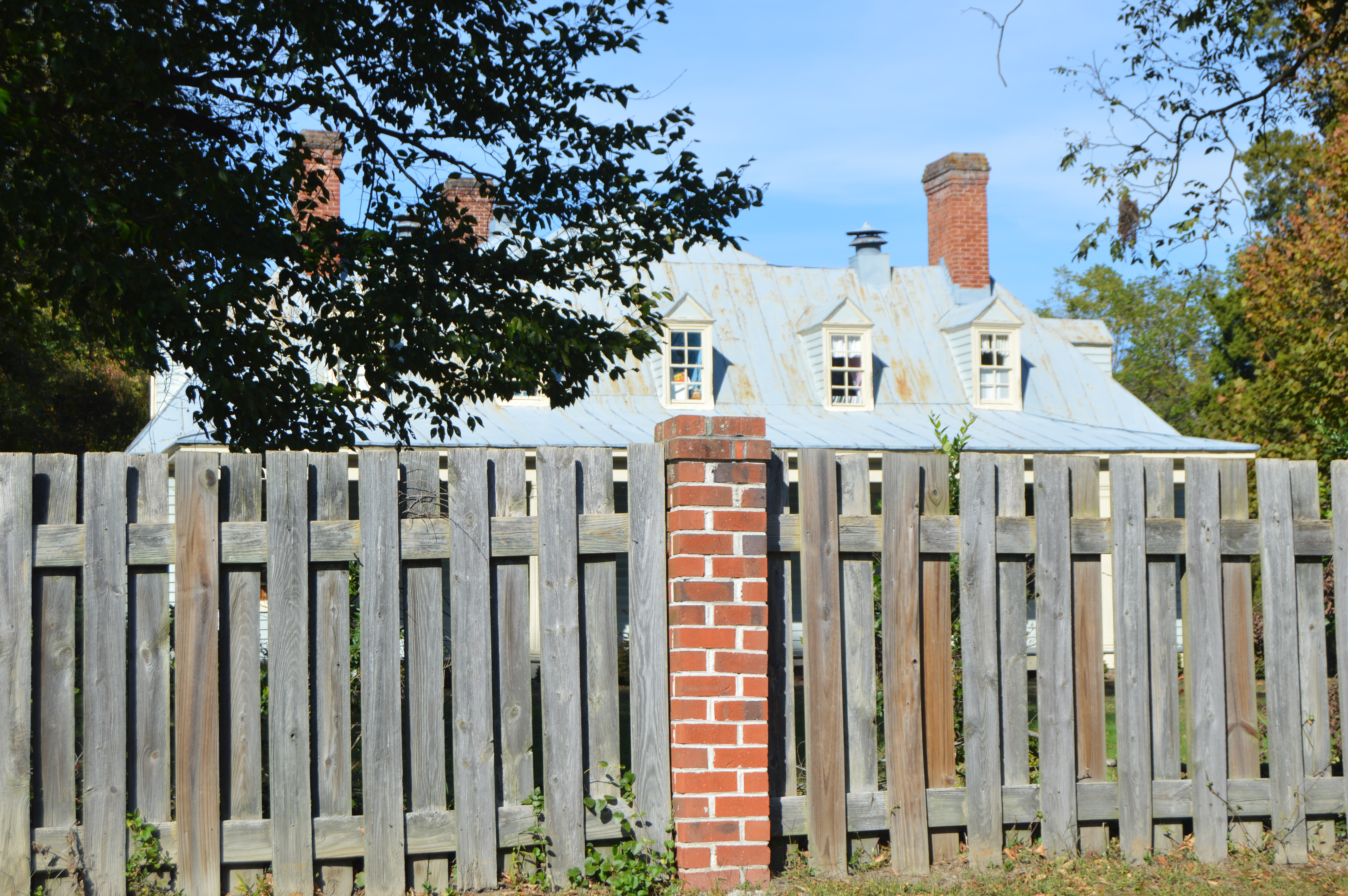 Fence and roofline of Mansfield, located on Mark Drive just southwest of Matoaca in Dinwiddie County, Virginia, United States. Built in 1750, it is listed on the National Register of Historic Places.